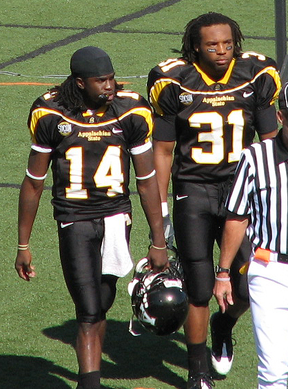 Armanti Edwards (#14) and Pierre Banks (#31) walking onto the field after halftime versus The Citadel.